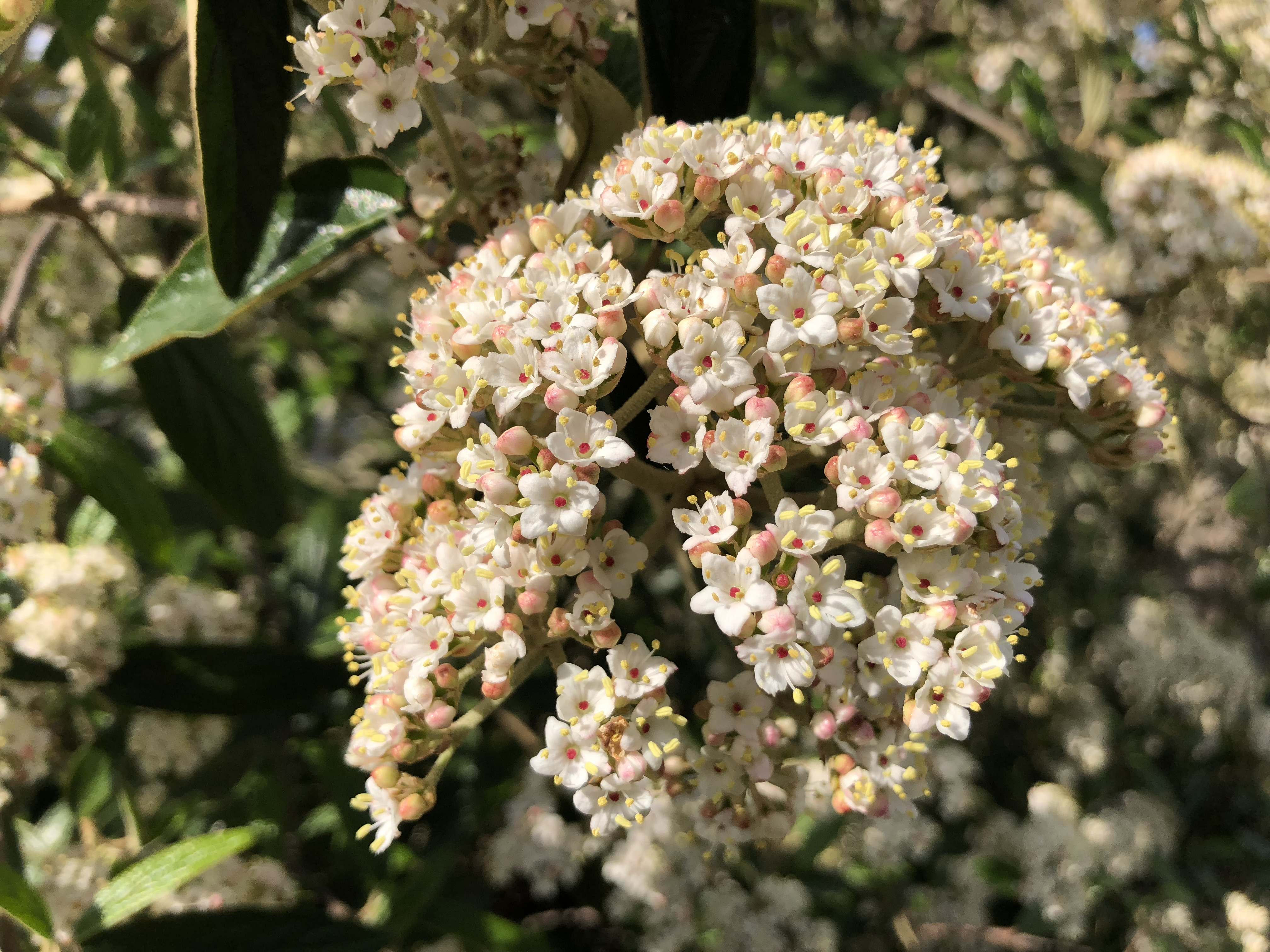 Leatherleaf Viburnum flowers along Franklin Farm Road in the Franklin Farm section of Oak Hill, Fairfax County, Virginia